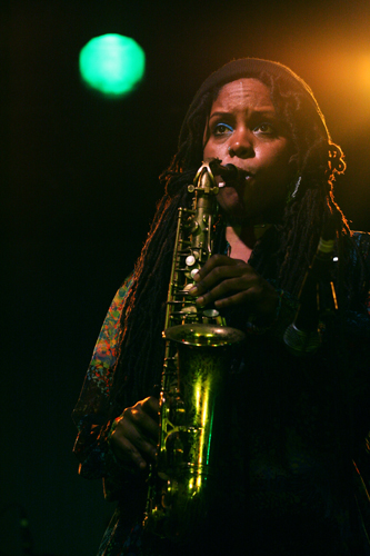 Matana Roberts @ ATP Curated by The Dirty Three